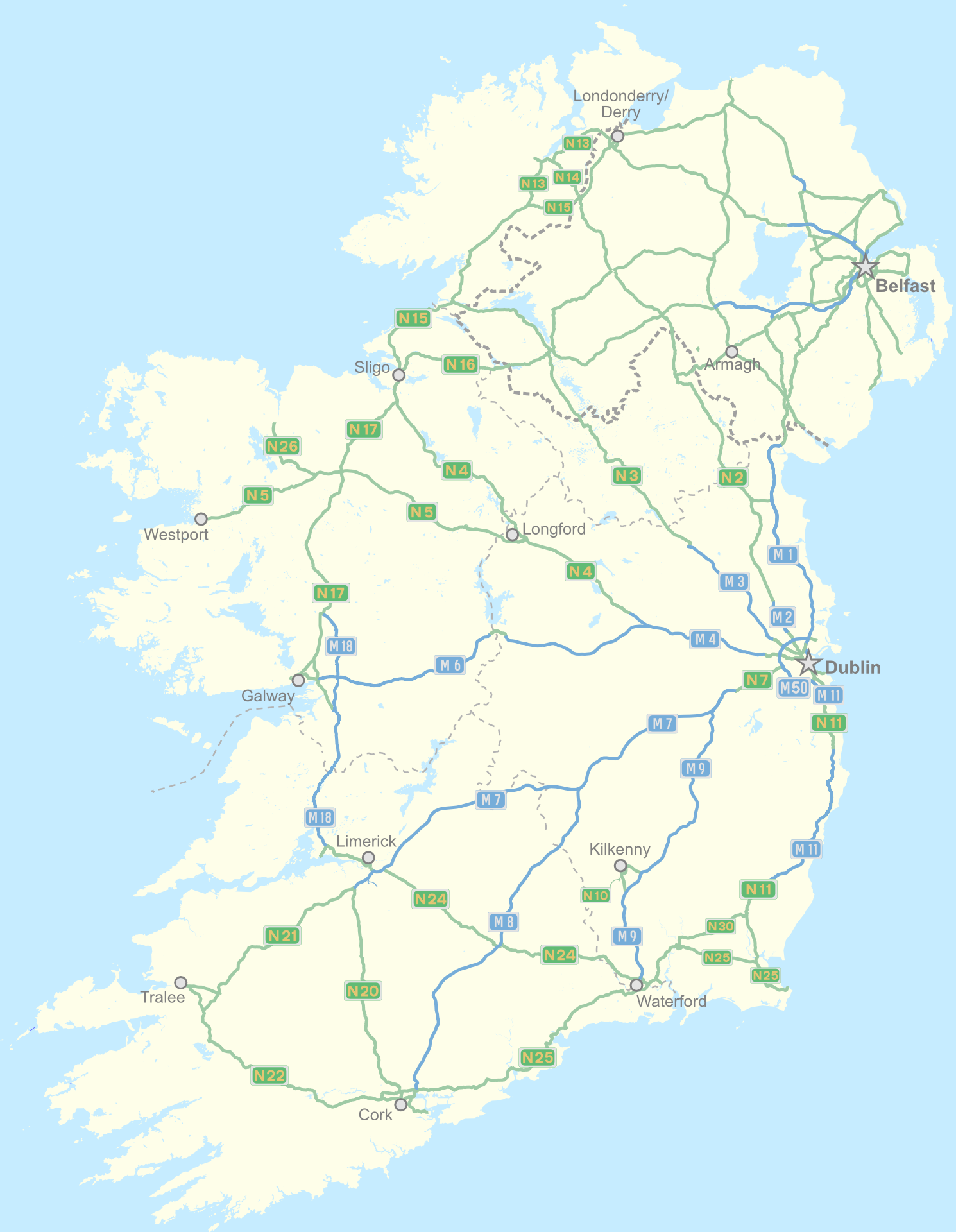 Updated map of national roads and motorways in Ireland, with Nxx routes in green and Mxx routes in blue as of 2018